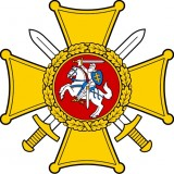 Insignia of the Commander of the Lithuanian Armed Forces